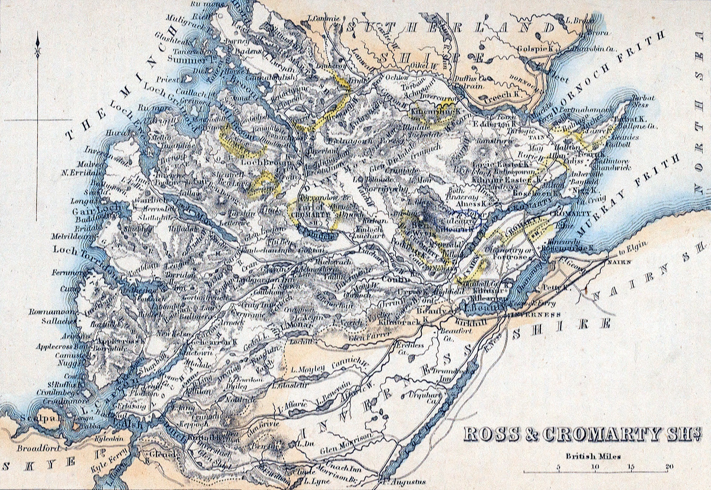 1861 ROSS & CROMARTY SHIRES. VOL.II. The Imperial Gazetteer of Scotland. Edited by Rev. John Marius Wilson